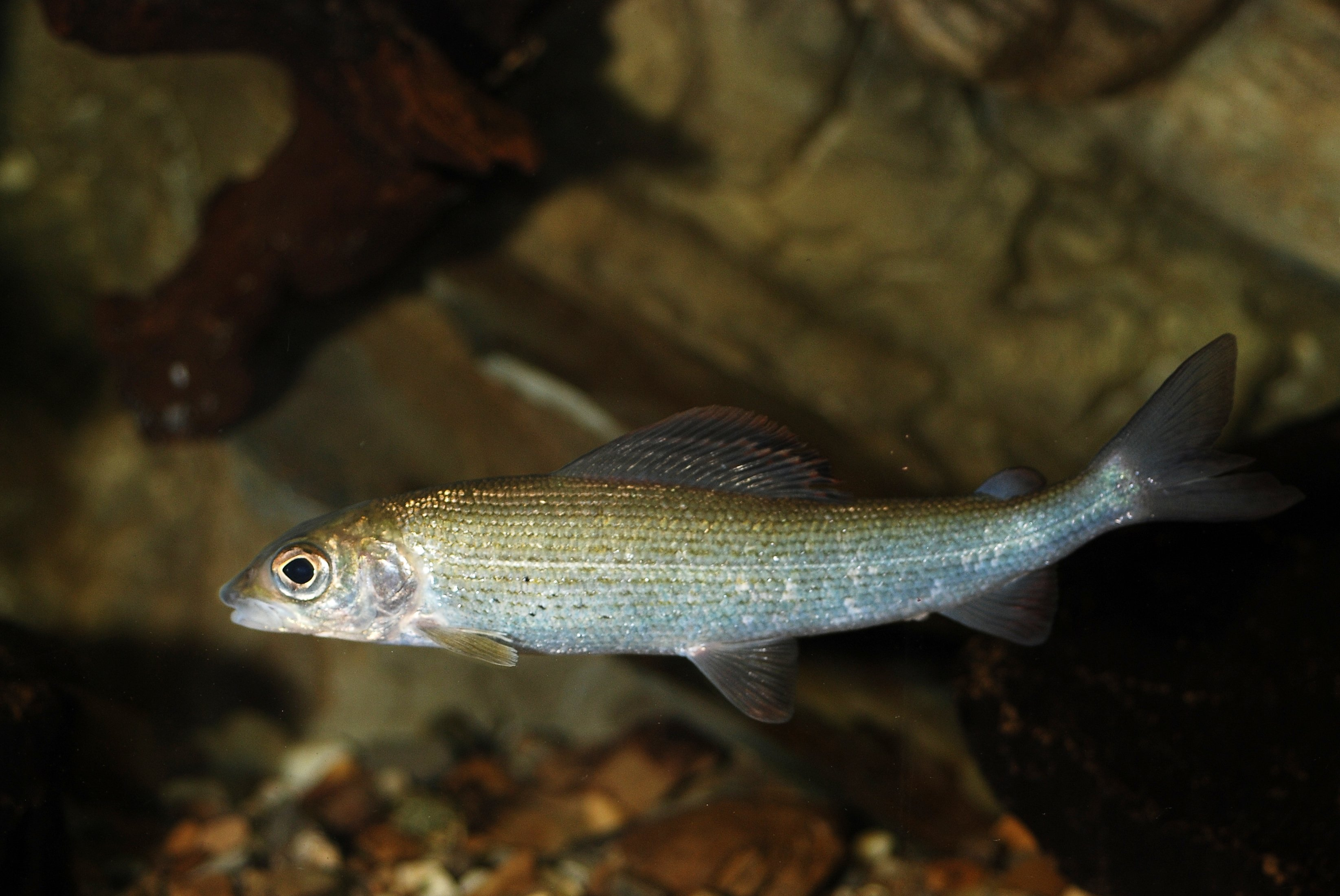 Grayling.